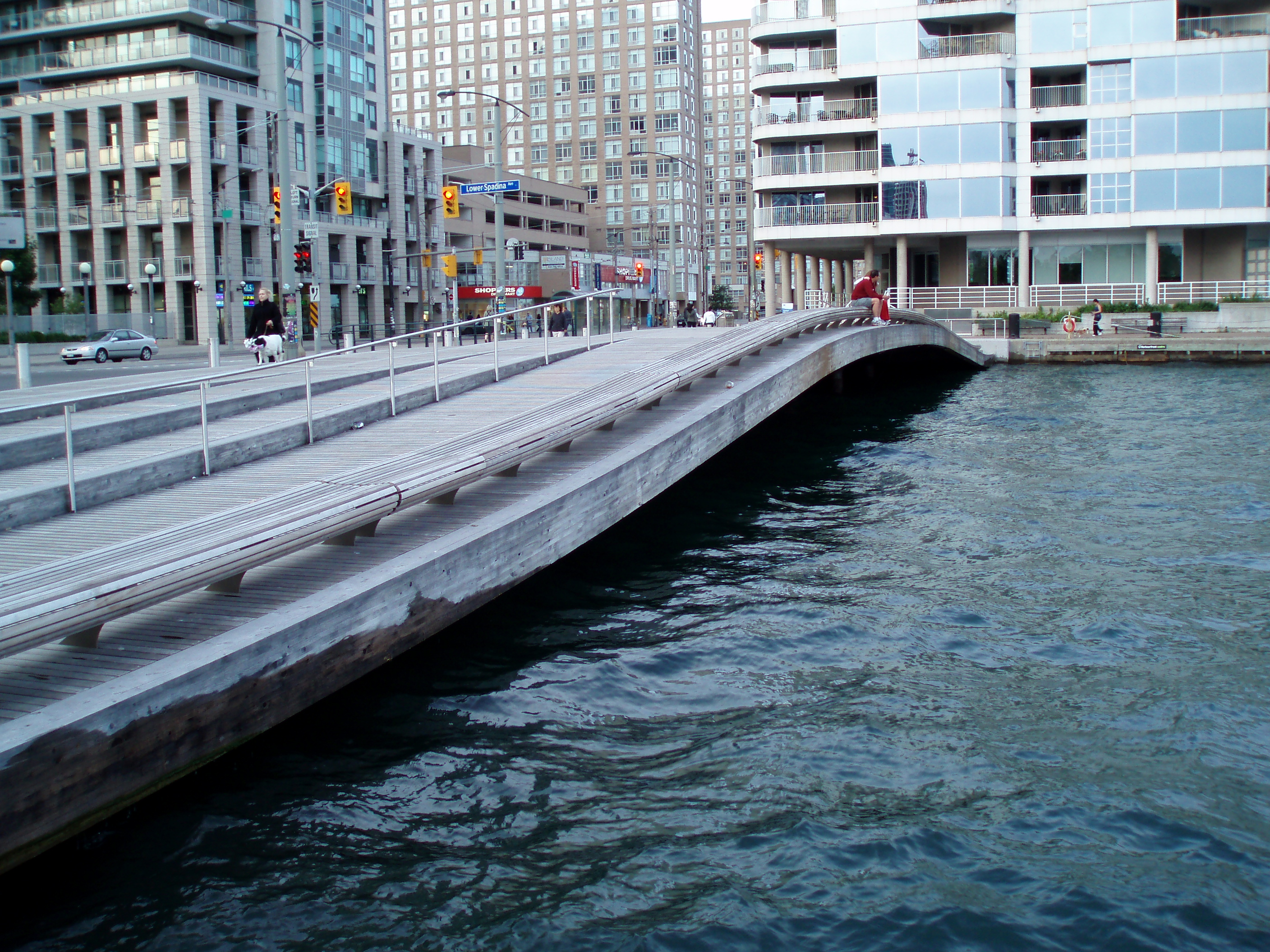 Lower Spadina Avenue, Spadina Wave Deck